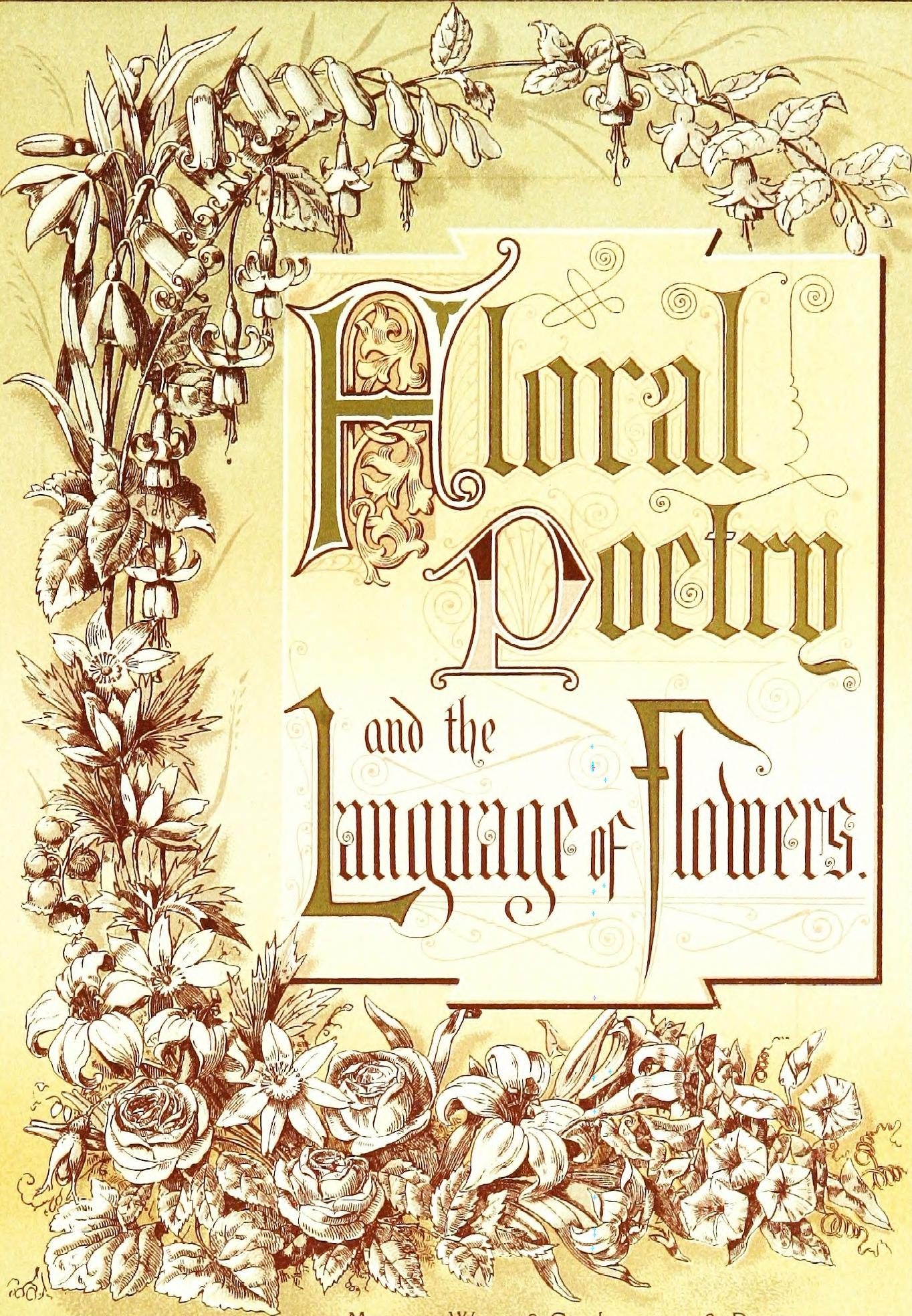 Title: Floral poetry and the language of flowers Year: 1877 (1870s) Authors: S., J. H Subjects: Flowers in literature English poetry Flower language Publisher: London, Marcus Ward & Co. Text Appearing Before Image: its use in Art. From the German of O. Seemann. Edited by G. H.BlANCHi, B.A., late Scholar of S. Peters College, Cambridge; BrothertonSanskrit Prizeman, 1875. 64 Illustrations. Bards and Blossoms, with Twelve Floral Plates, illuminated in Gold andColours. By F. E. HULME, F.L.S., F.S.A., Marlborough College; Author of Plants : their Natural Growth and Ornamental Treatment, &c. A complete Catalogue of Marcus Ward & Co.s Publications may be had, free by-post, on application. Text Appearing After Image: Marcus Ward & Co. London & Belfast. 9 -w Floral Poetry AND THE LANGUAGE OF FLOWERS Wiih iolour^d Jlltt^tptjon^ Gather a wreath from the garden bowers,And tell the wish of thy heart in flowers. Percival.